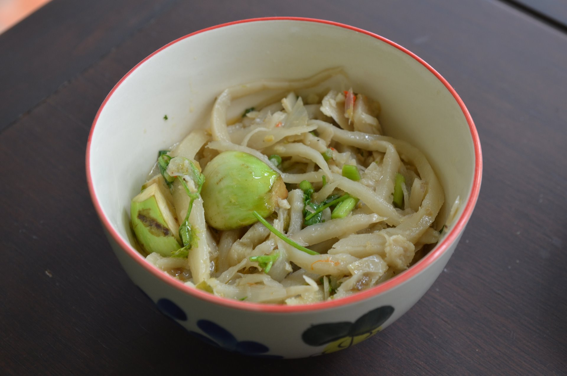 Yam no mai (Thai script: ยำหน่อไม้) is a Northern Thai salad made with strips of boiled bamboo shoots, shallots, herbs, fish sauce and chillies. The version as shown in the photo also includes raw Thai eggplant, whereas other version might also include minced pork and/or fermented fish.